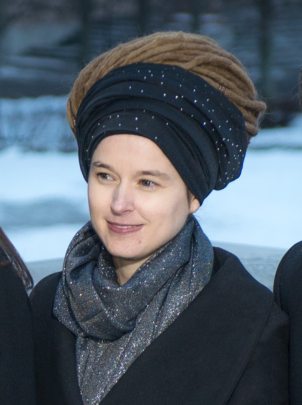 Amanda Lind as newly appointed minister in the new Löfven government, at Lejonbacken at Stockholm Castle on January 21, 2019.